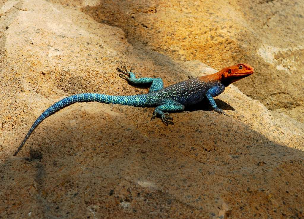 Red headed rock agama